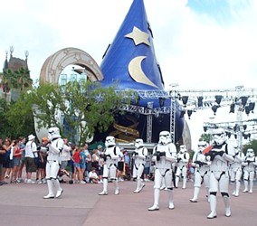 A photo I shot of Disney-MGM Studios during Star Wars Weekends